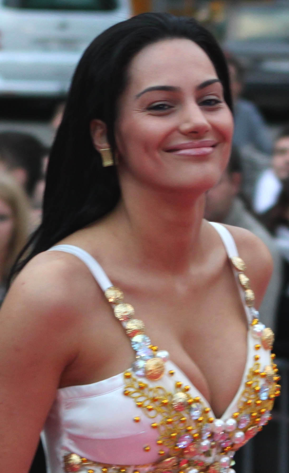 Eva Rivas, representing Armenia in the 2010 Eurovision Song Contest.